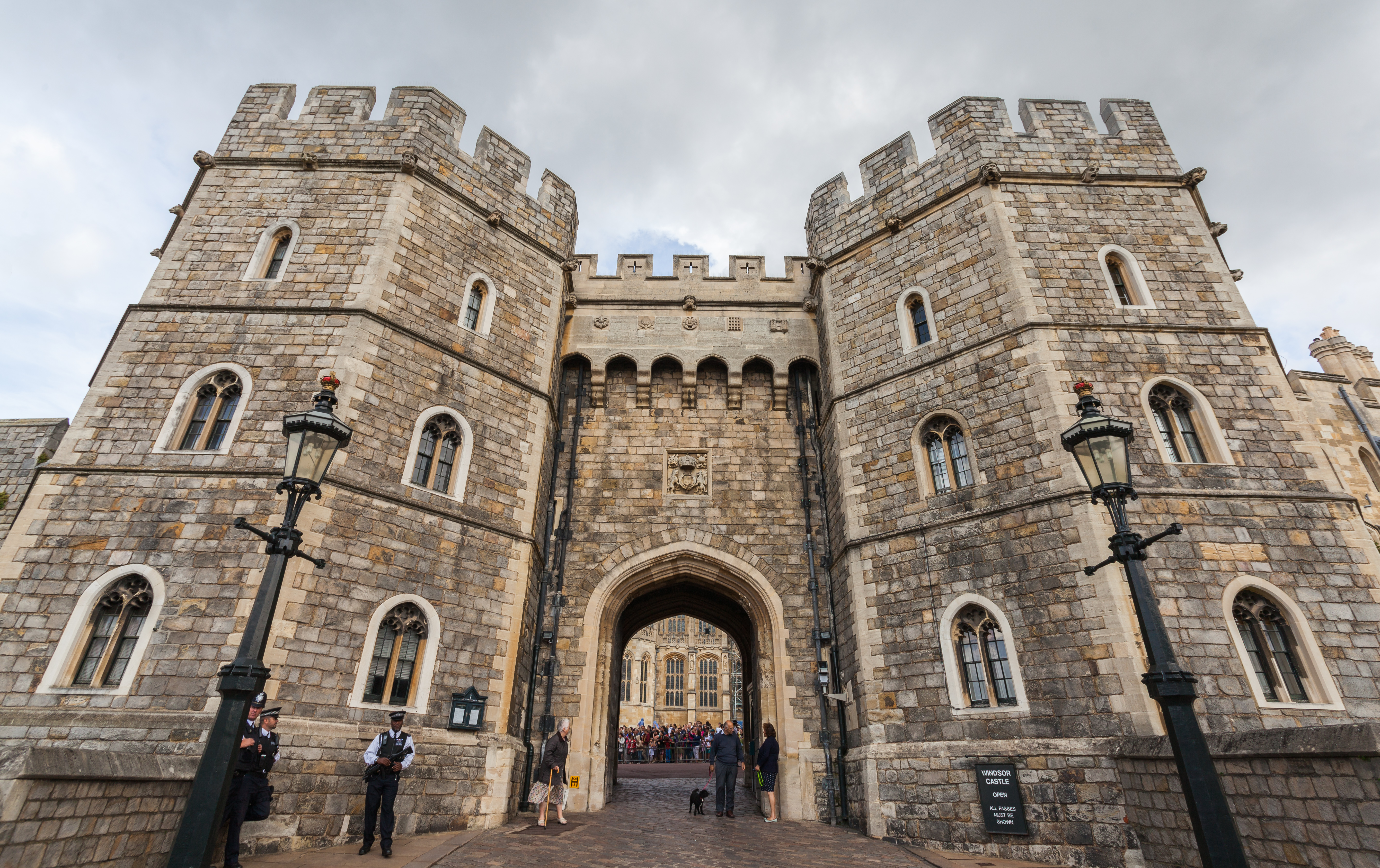 Windsor Castle, Windsor, England